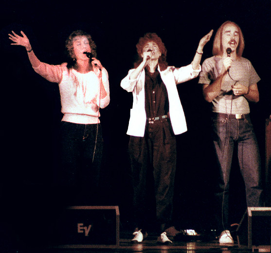 A photo of the 2nd Chapter of Acts in concert c. 1985